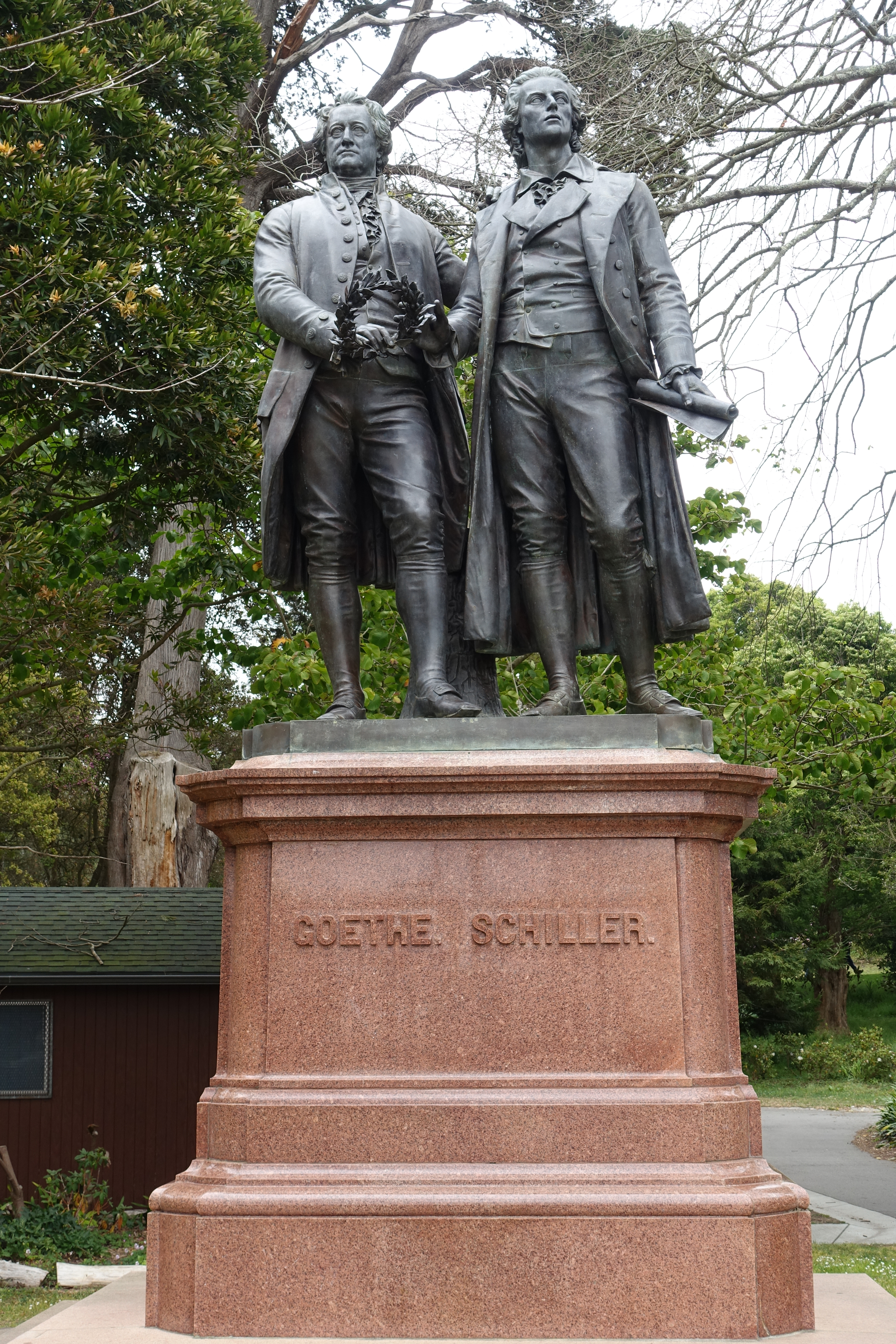 Goethe-Schiller Monument - Golden Gate, San Francisco, California, USA. A copy of the original in Weimar, Germany, by Ernst Friedrich Rietschel (1804-1861). This artwork is in the public domain because the artist died more than 70 years ago.